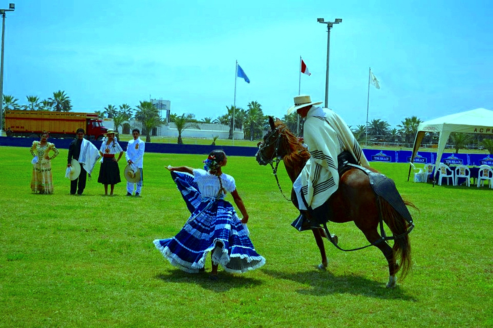 Caballo De Paso en Víctor Larco